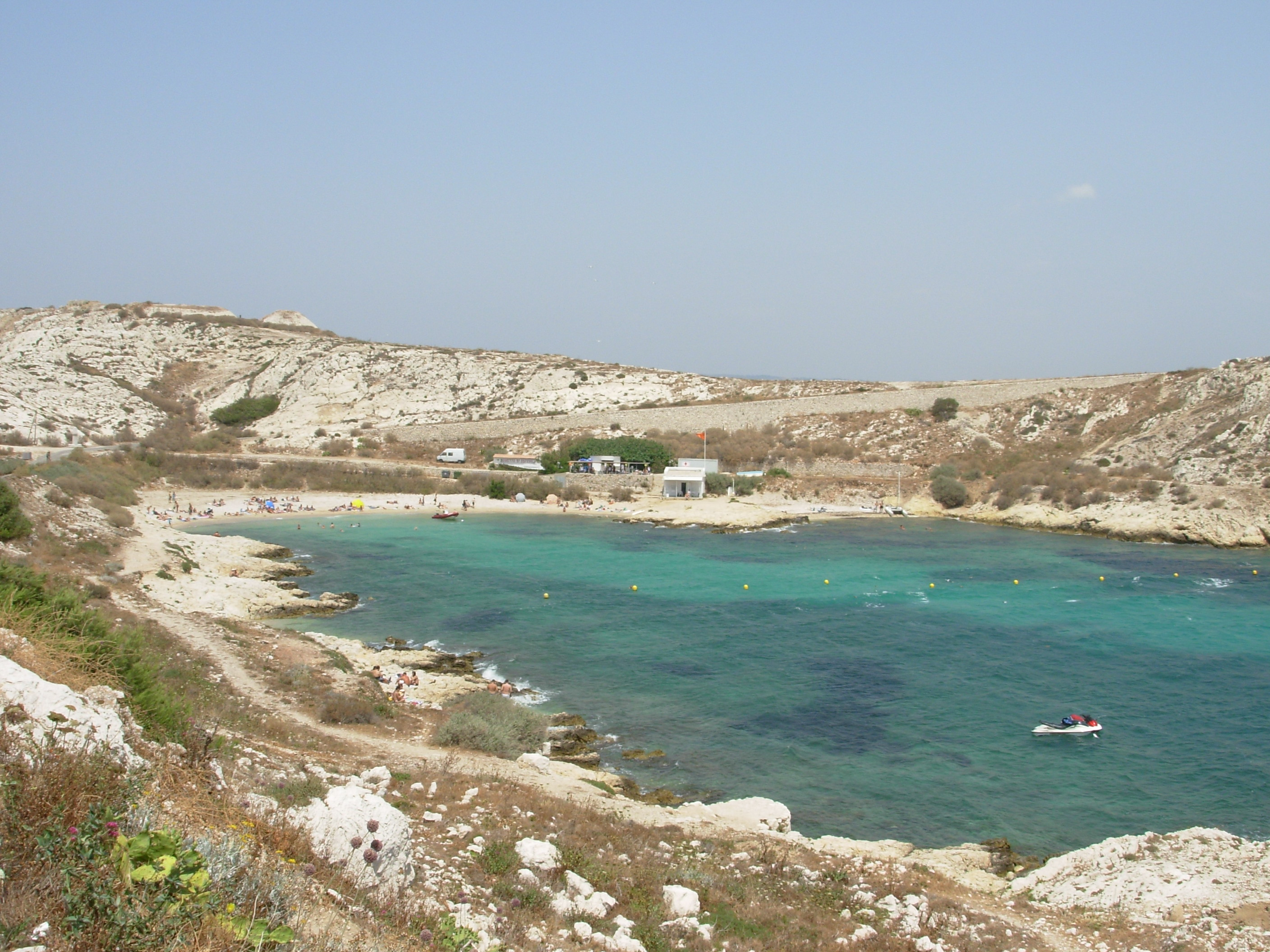 photo from the St Esteve Beach at the Ratonneau Island, near Marseille, France